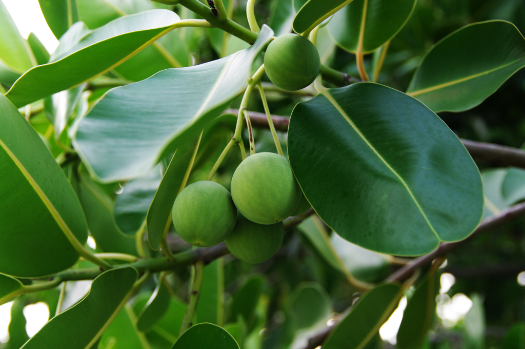 Calophyllum antillanum Britton or Calophyllum calaba Jacq. (Spanish: Palo María) photographed in San Juan, Puerto Rico